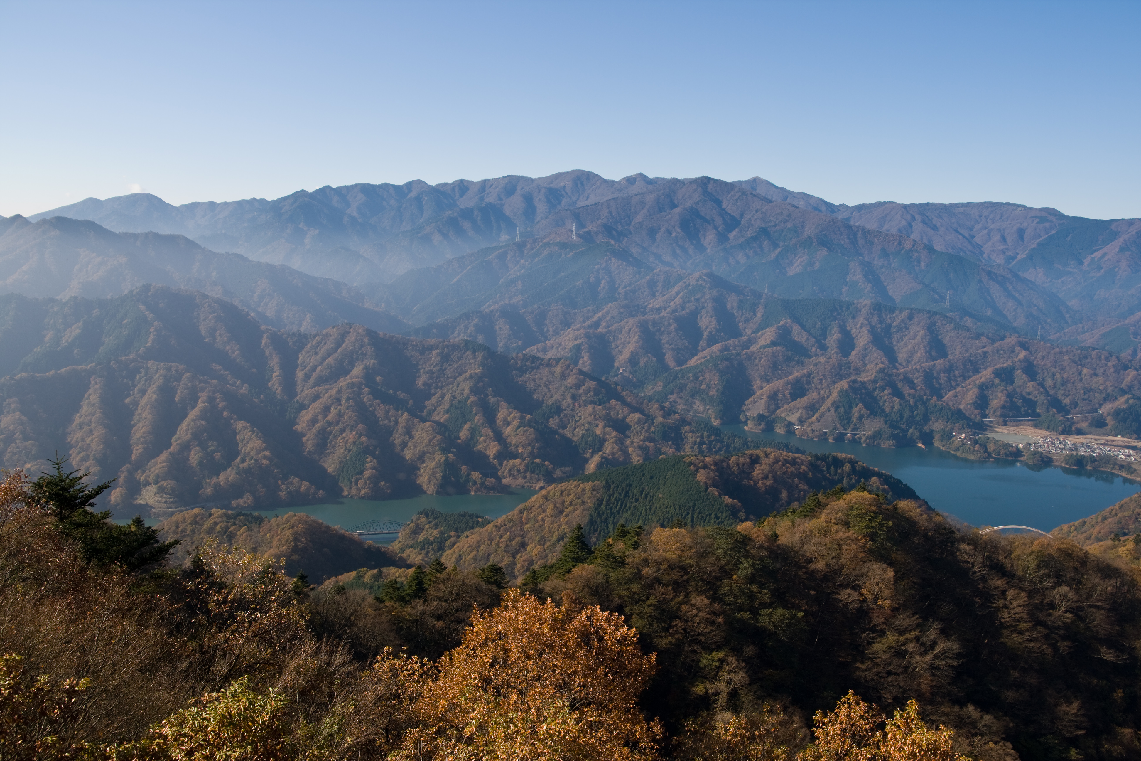 Tanzawa Mountains seen from Mount Bukka in Kanagawa Prefecture, Japan